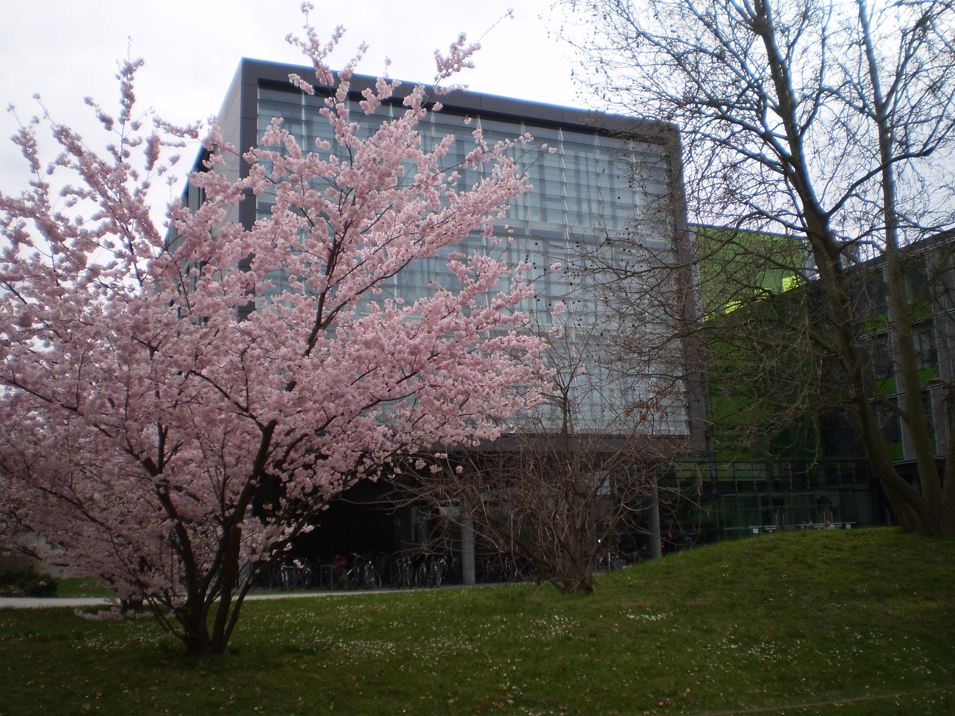 Andreas-Pfitzmann Building, Faculty of Computer Science, Dresden University of Technology